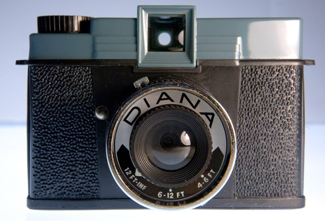 Front view of a Diana Camera